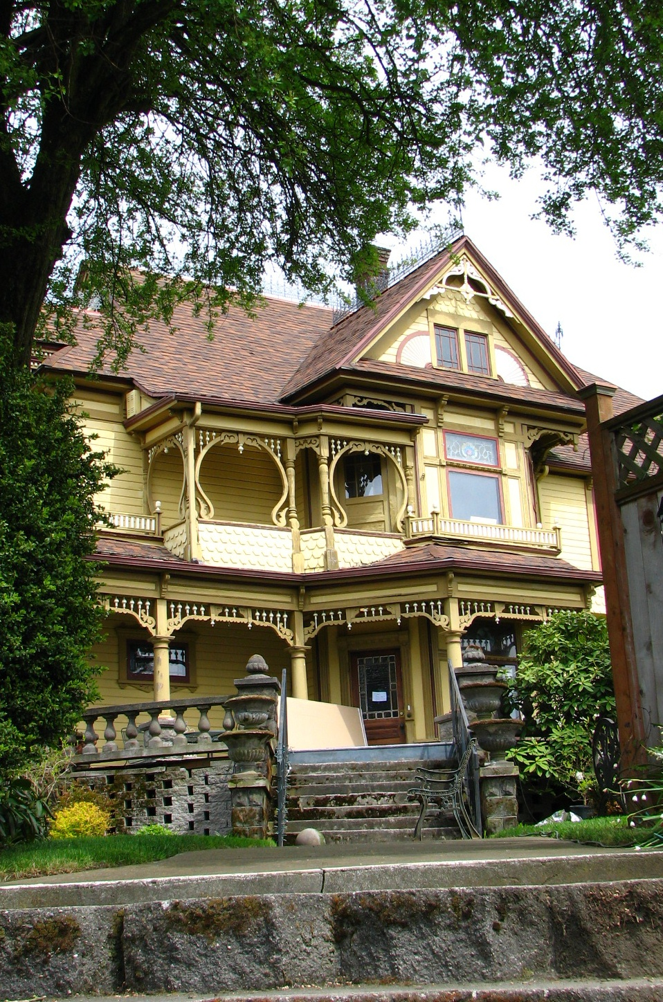 The historic John Palmer House, located at 4314 North Mississippi Avenue in Portland, Oregon, United States, is listed on the US National Register of Historic Places. The building is currently in use as a bed and breakfast inn.